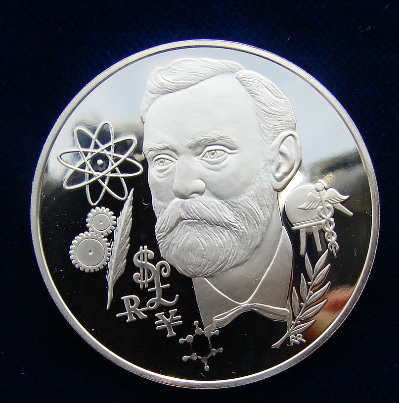 Stockholm, Sweden, Silver Medal Honoring the Presentation of the Nobel Prizes December 10, 1975. D.= 39 mm 19.92 g Sterling Silver. Head l. surrounded by symbols for money and sciences. Medallist: RR (W. Richard Renninger), Sculptor, Franklin Mint, 1918 Boyertown, Pennsylvania - 1995 Philadelphia